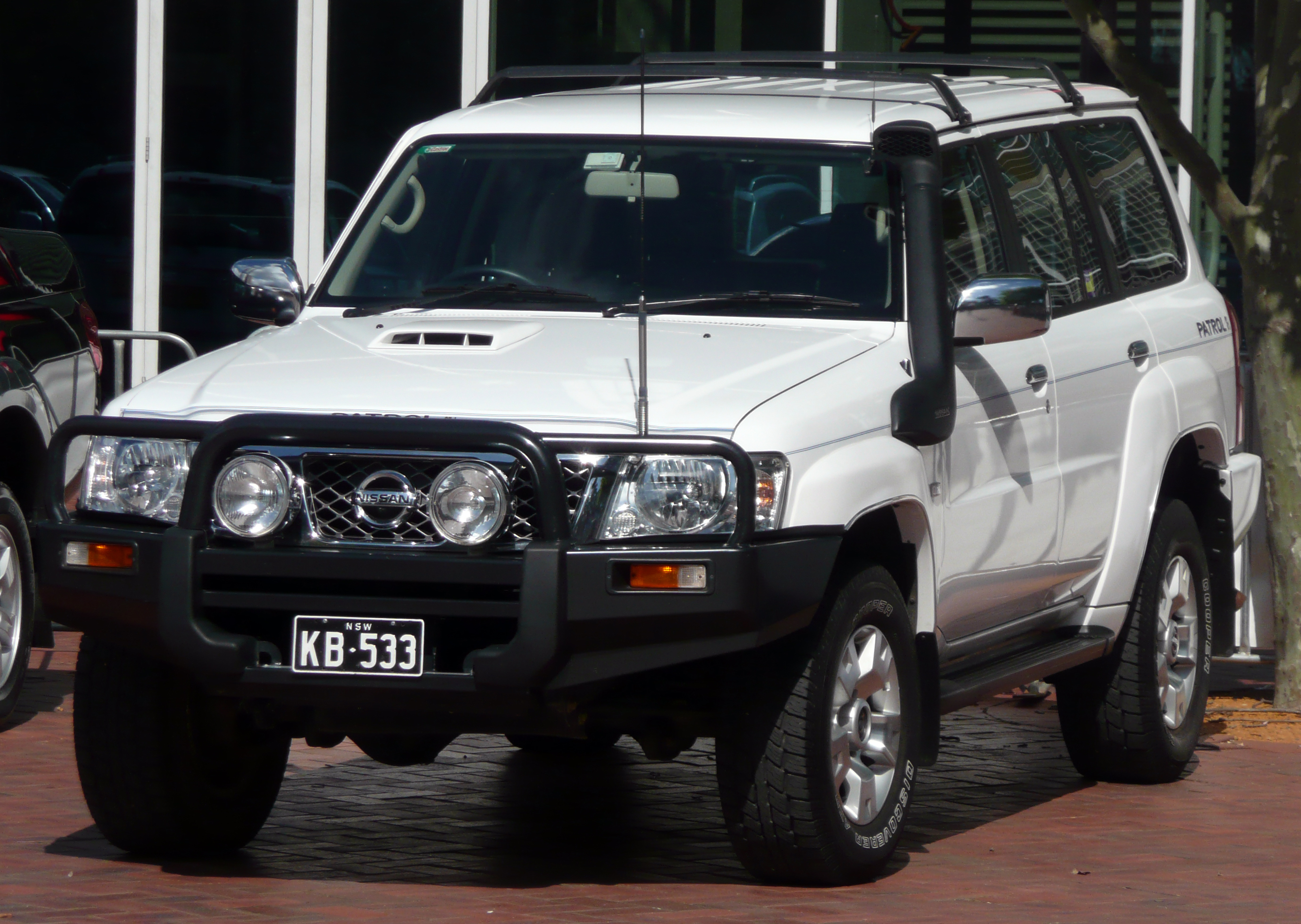 2008 Nissan Patrol (GU 6) ST-L. Photographed at the 2008 Australian International Motor Show, Sydney, New South Wales, Australia.